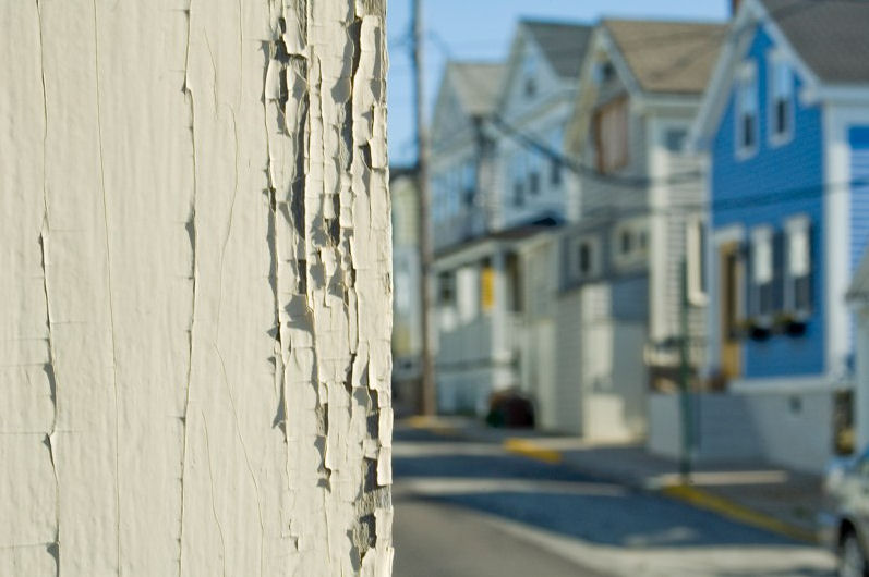 Homes in Stonington, Connecticut, on School Street